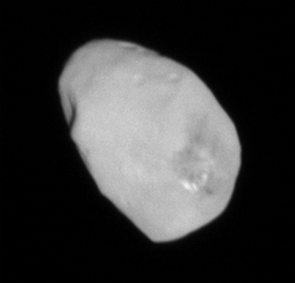 the most high-definition picture of Nix released so far, cropped from the 'family portrait' of Pluto's moons.